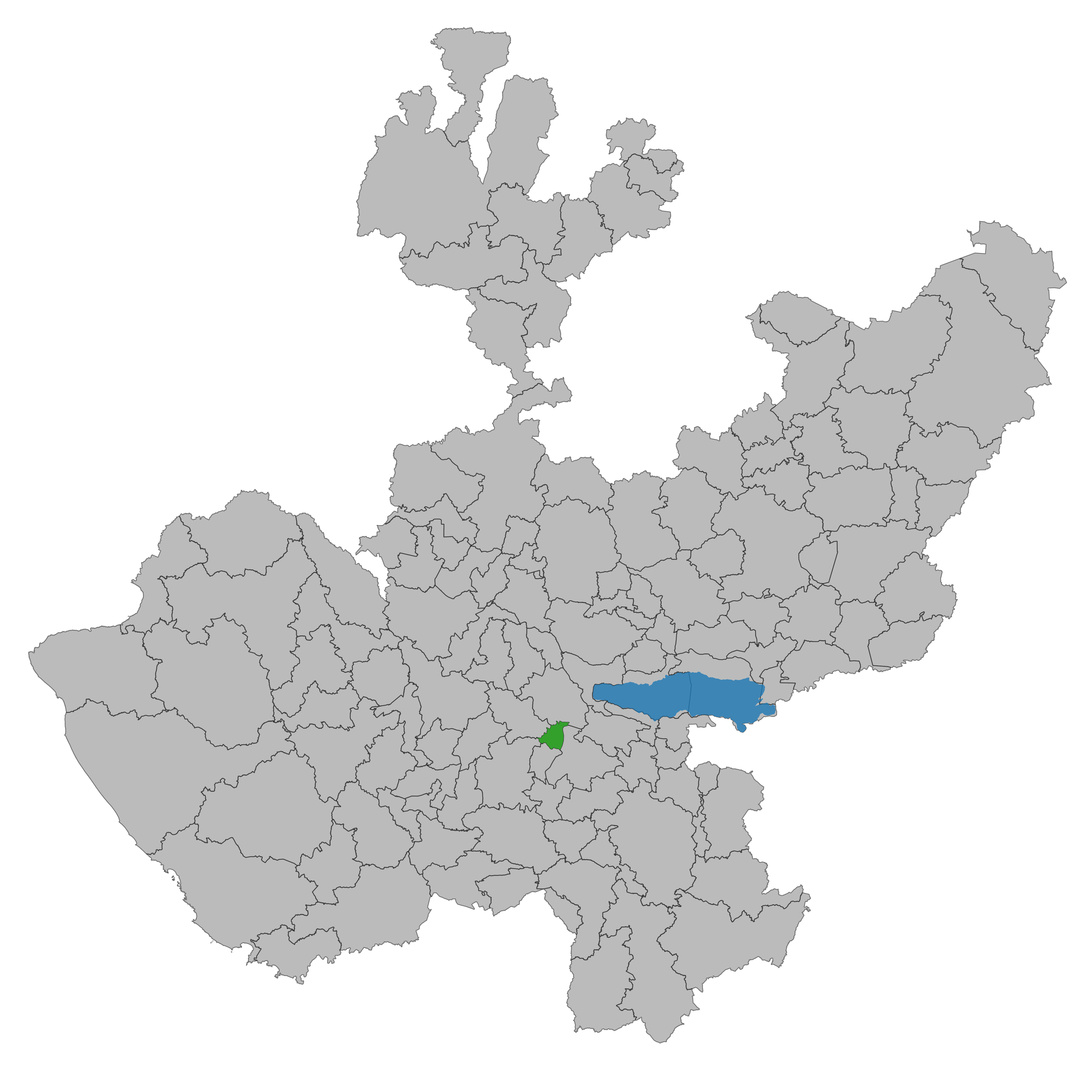 Municipality of Jalisco. Prepared with the software QGIS version 2.8.2 Wien & with information of SCINCE 2010 version 05/2013